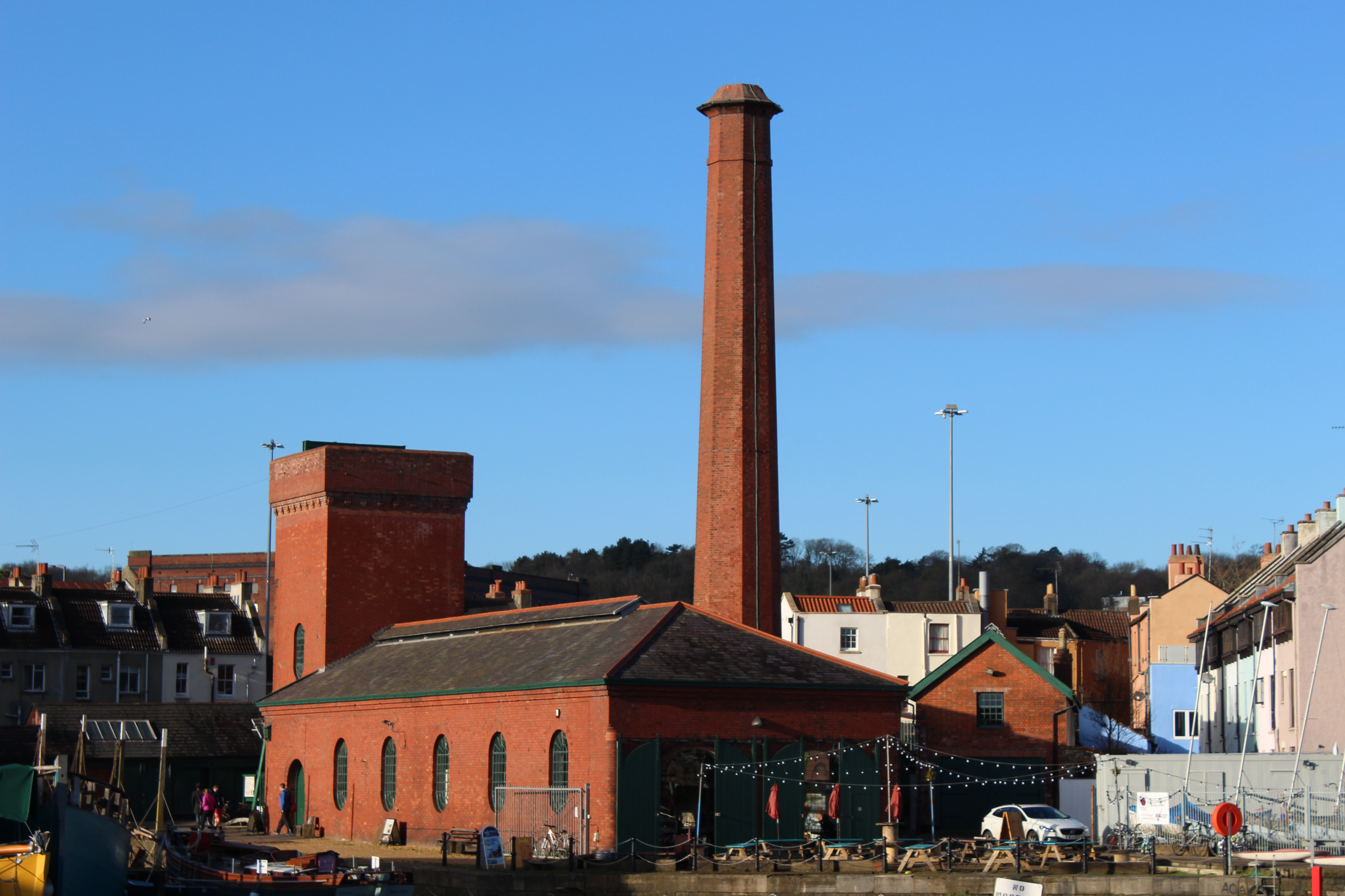 Image of the red brick pump room building. This became the visitor centre during the 2015 redevelopment project.